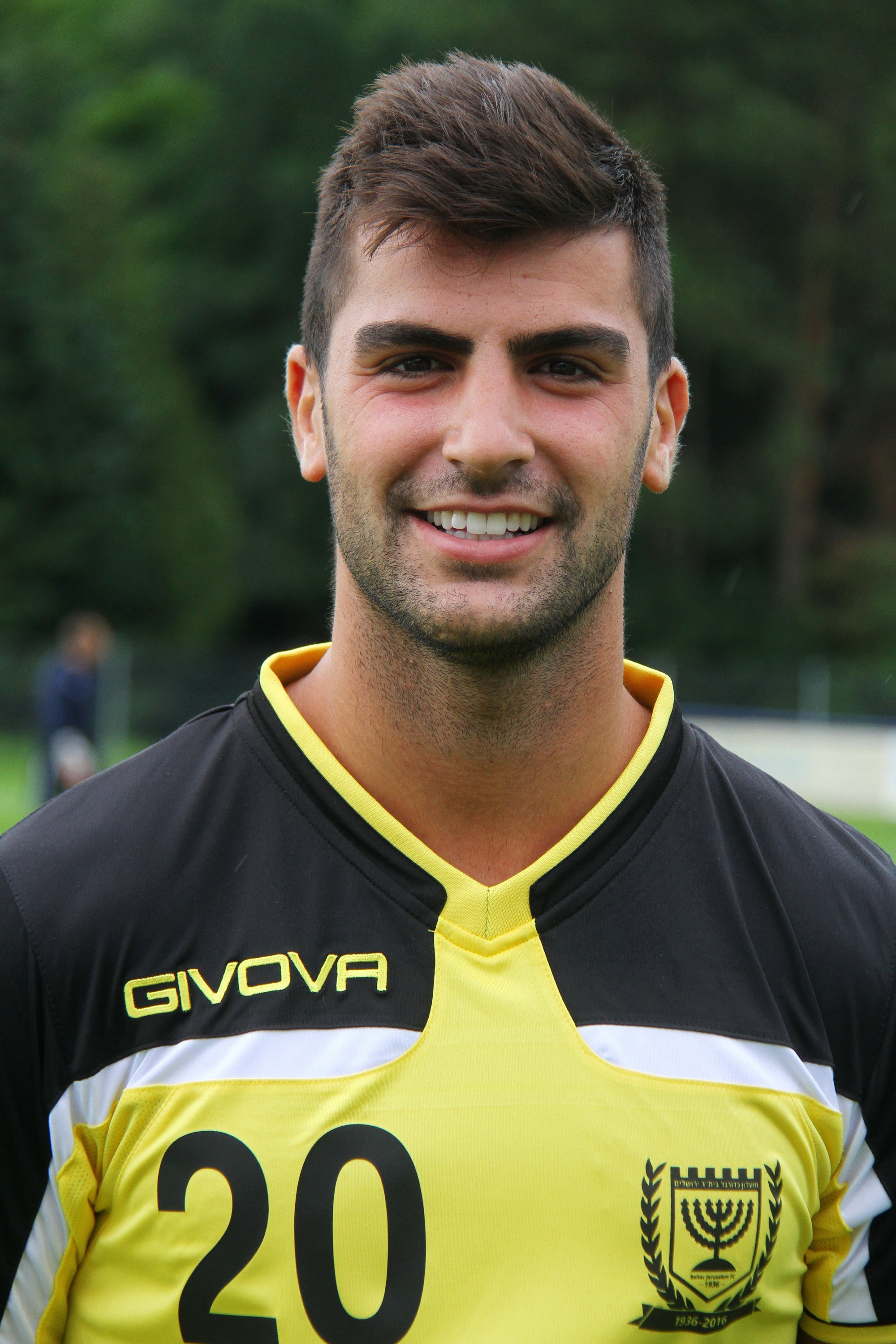 Friendly match between Beitar Jerusalem F.C. (yellow shirts) and MTK Budapest FC (blue shirts) at 2016-06-18 in Bad Erlach (Austria. – The photo shows Omer Nachmani, Beitar Jerusalem F.C.